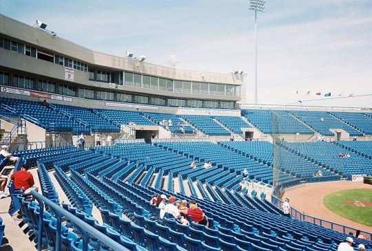 14:38, 28 June 2006 . . Dakern74 . . 540×365 (58,309 bytes) ( CopyrightedFreeUse-User|Dakern74 Seating area at Lynx Stadium, Ottawa, taken Jun 25 2006)